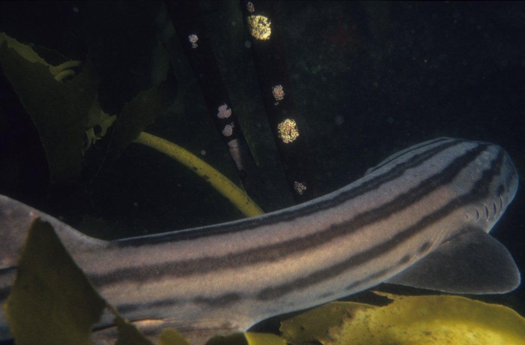 Pyjama shark (Poroderma africanum) over a kelp bed, Western Cape, South Africa